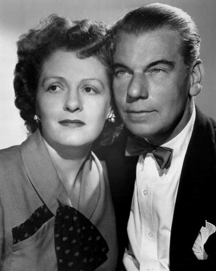 Photo of Florence Freeman (Ellen Brown) and Ned Wever (Dr. Anthony Loring) from the radio daytime drama Young Widder Brown.